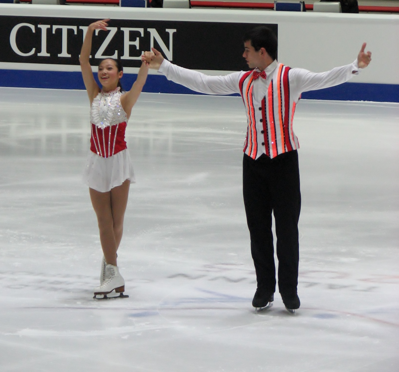 Chelsea Liu & Brian Johnson representing USA in 2015 World Junior Figure Skating Championships